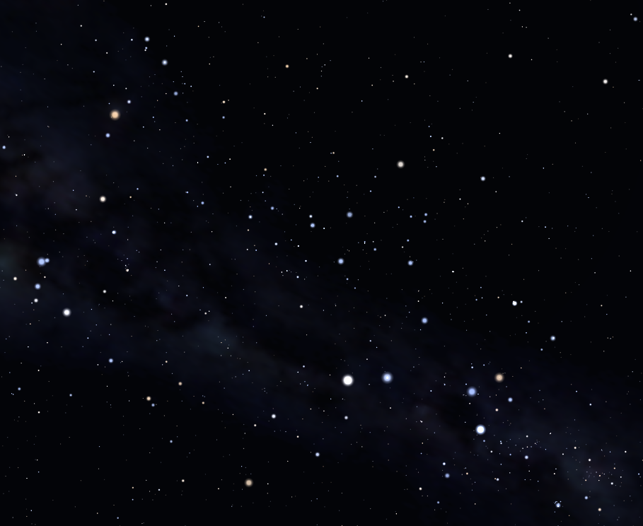 The Scorpius-Centaurus Association, as seen using Stellarium.